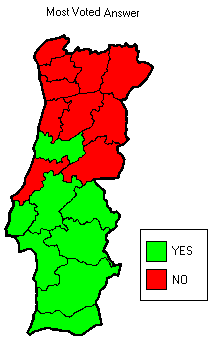 Category:Abortion maps